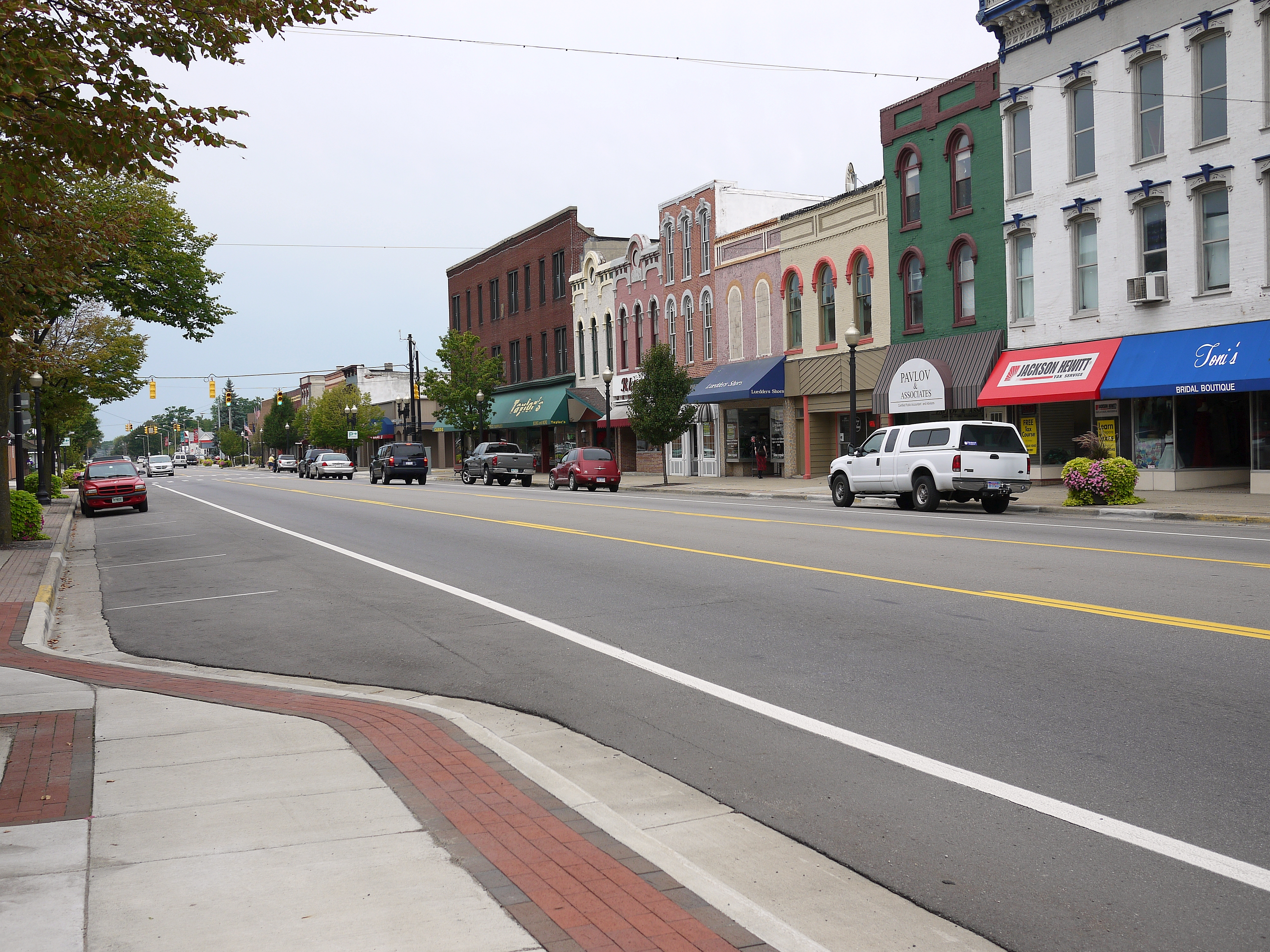 NRHP-listed Coldwater Downtown Historic District in Coldwater, Michigan. Looking east along Chicago Street, from the corner of Chicago and Monroe Streets. The middle of the three blocks that comprise the district, with the westernmost block in the background.